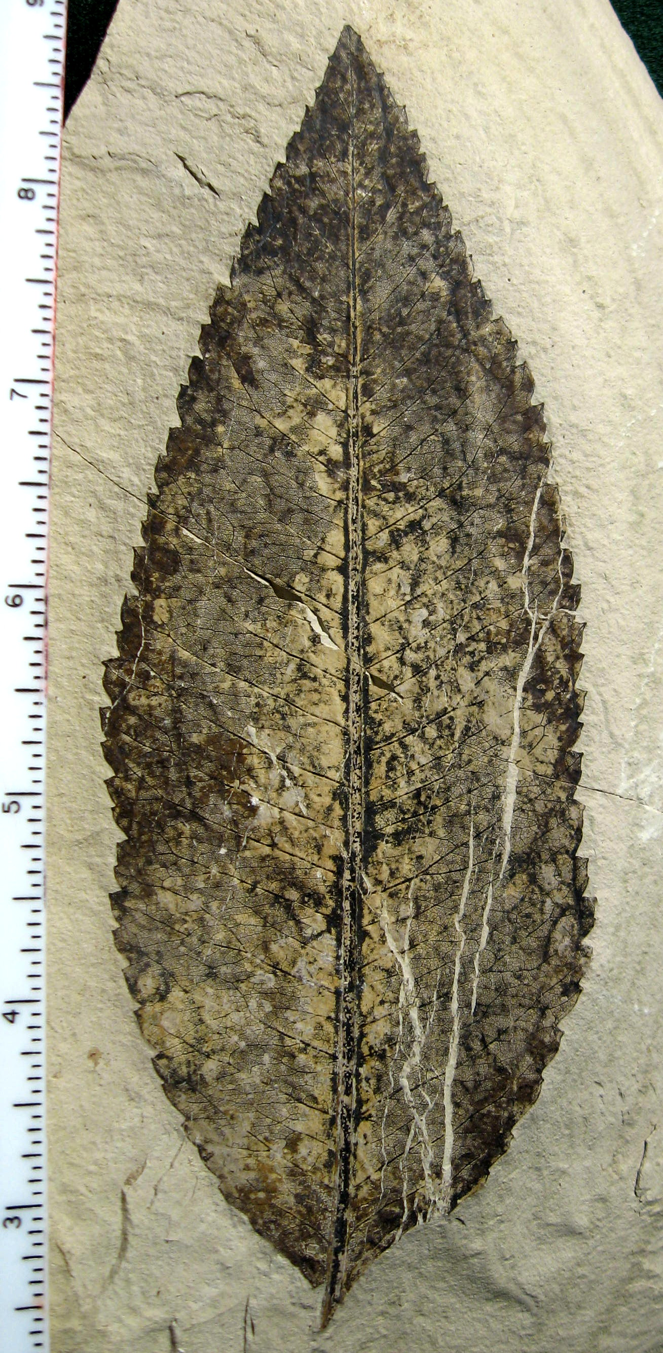 An ~18.5cm tall leaf from the extinct species Photinia pagea. ~49.5 million years old. Early Ypresian, Klondike Mountain Formation, Republic, Ferry County, Washington, USA. Stonerose Interpretive Center specimen.